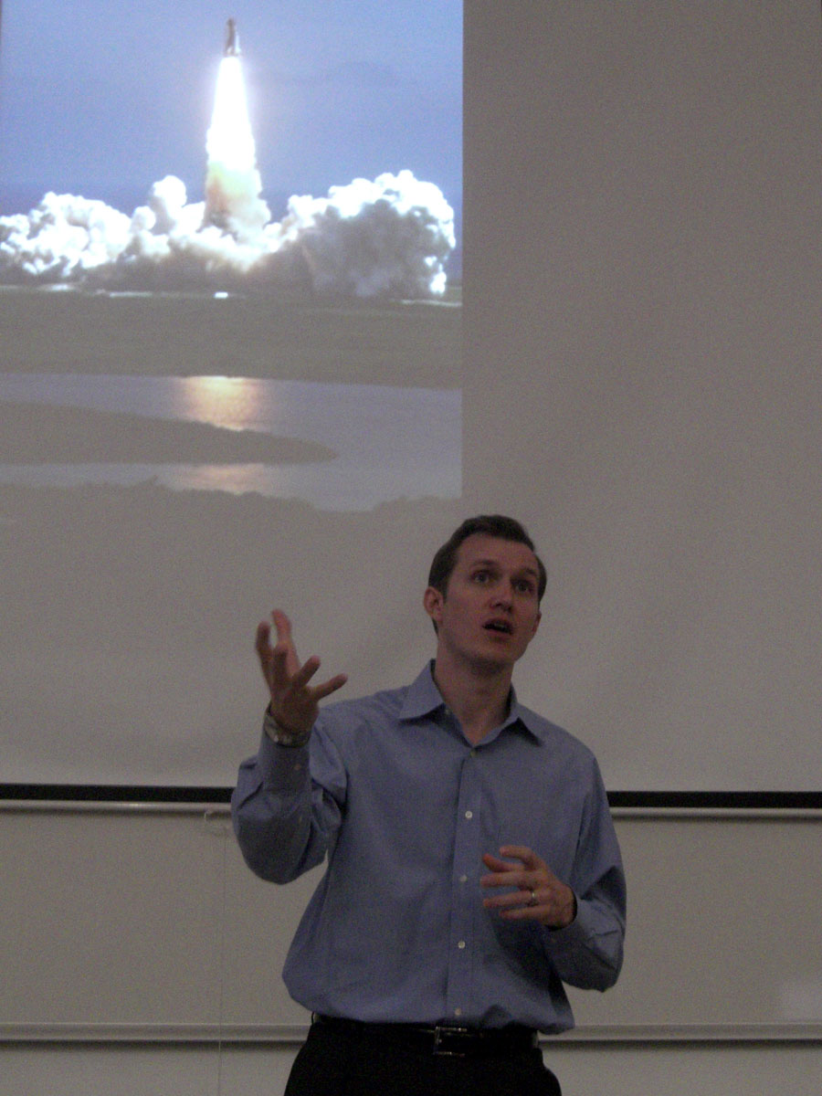 George Whitesides (NSS) during Dalmatian Space Summer